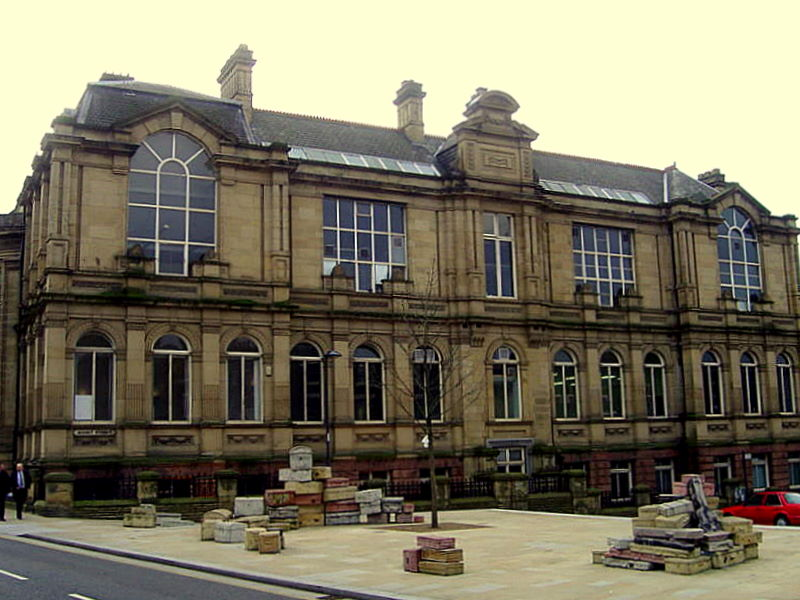 The Liverpool College of Art (Pic 2) With sculpture of suitcases in foreground